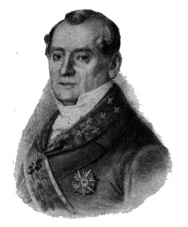 Per Westerstrand